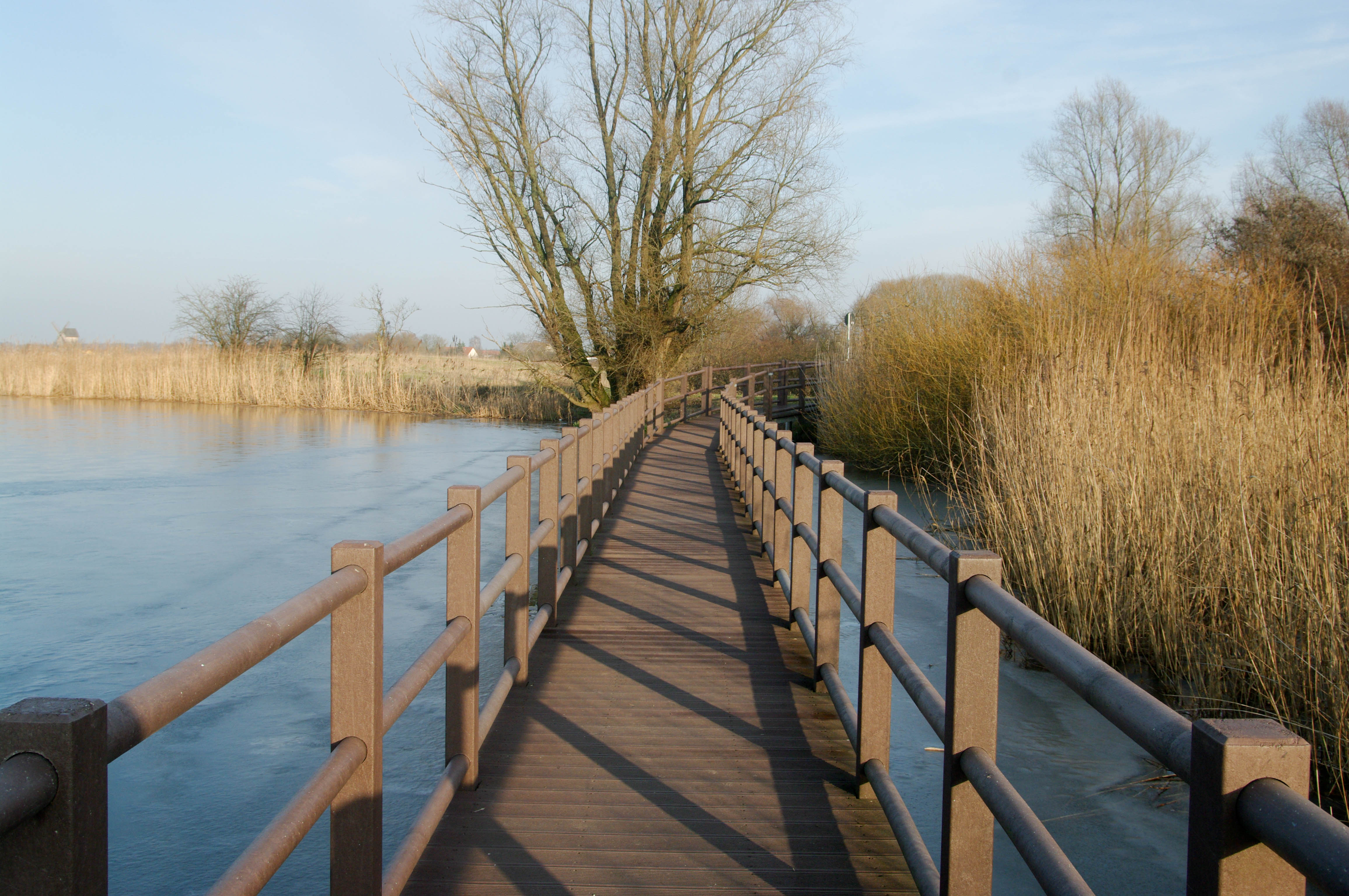 Vehlefanz, Brandenburg, Germany in winter